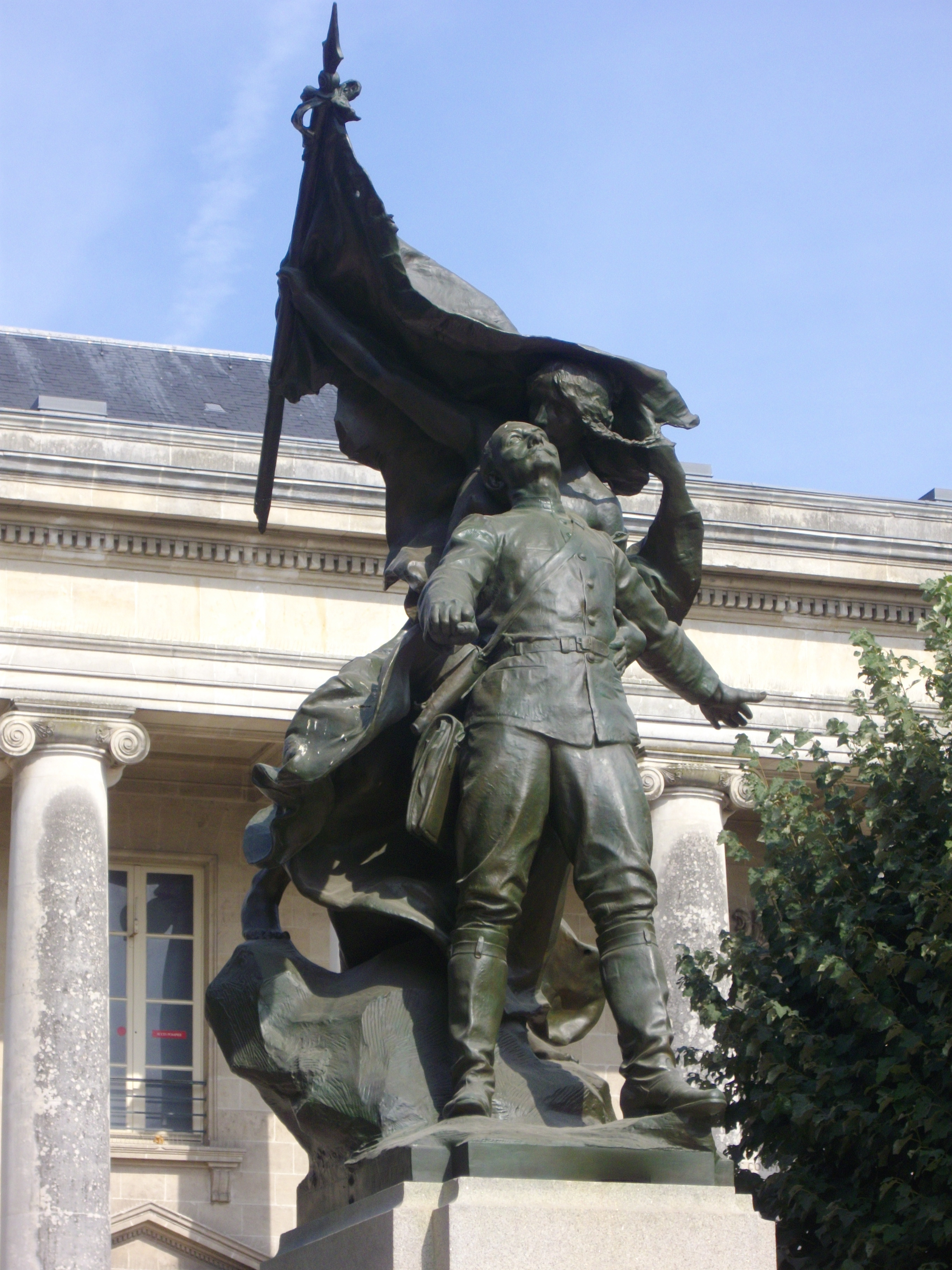 Statue of colonel Villebois-Mareuil in Nantes (Loire-Atlantique, France)